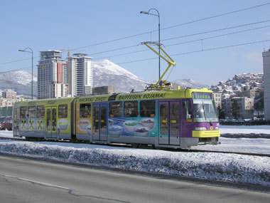 A common city tram in Sarajevo